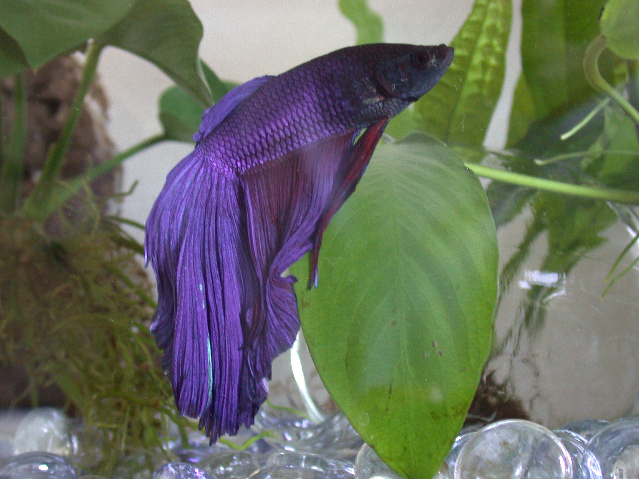 Blue and red super-delta Betta splendens fish in home aquarium.